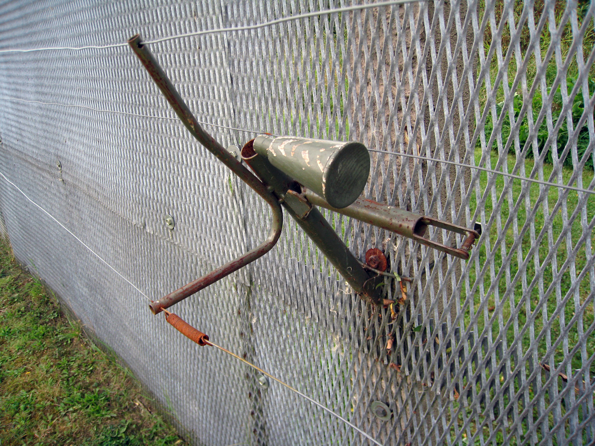 Replica SM-70 directional anti-personnel mine mounted on a section of border fence on the former inner German border. On display at the Grenzhus Schlagsdorf.